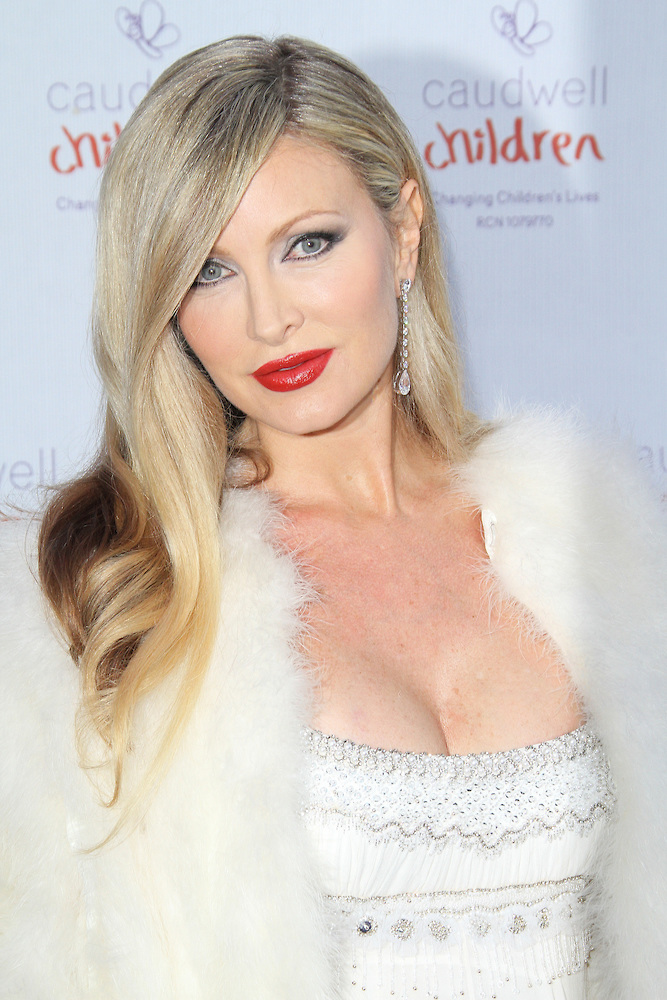 American model and businesswoman Caprice Bourret at the 2013 Butterfly Ball: A Sensory Experience, Battersea Evolution, in London, UK.